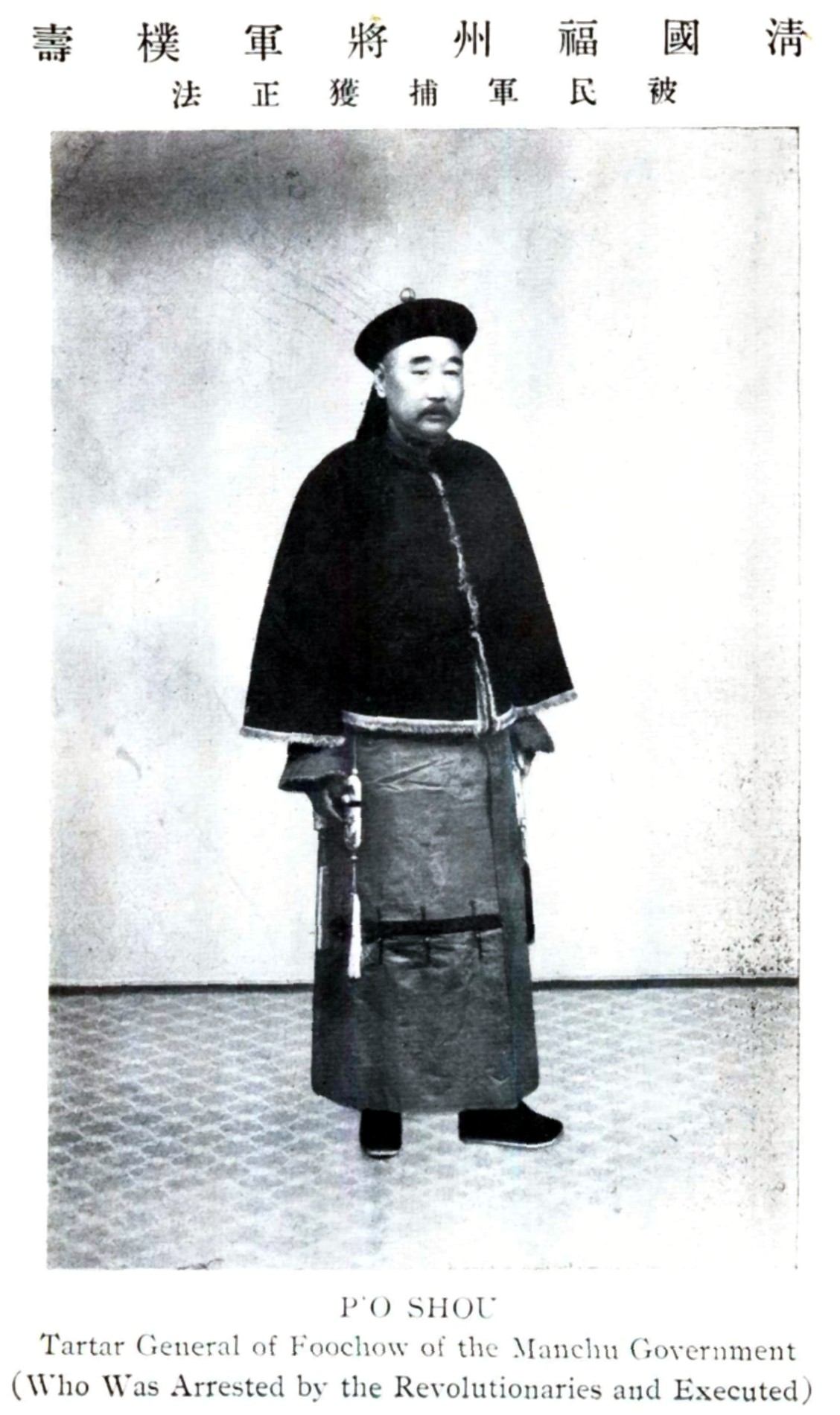 樸壽 Po Shou, the last General of Foochow